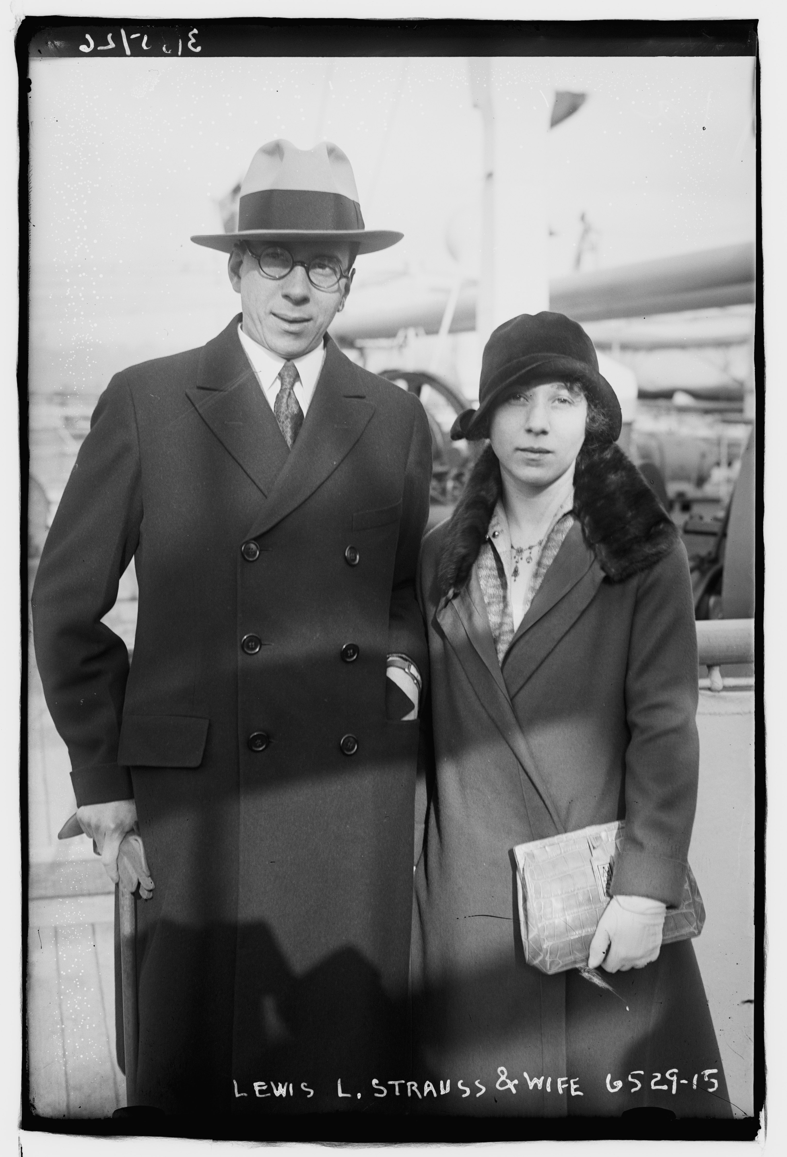 Title: Lewis Strauss & wife Abstract/medium: 1 negative : glass ; 5 x 7 in. or smaller.